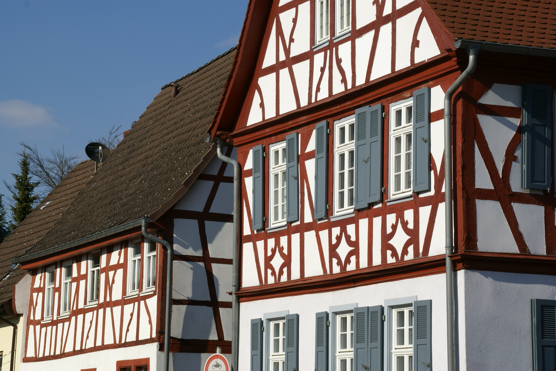 Timber framing houses at Kirchstrasse (Church Street) in Gernsheim, Hessen, Germany